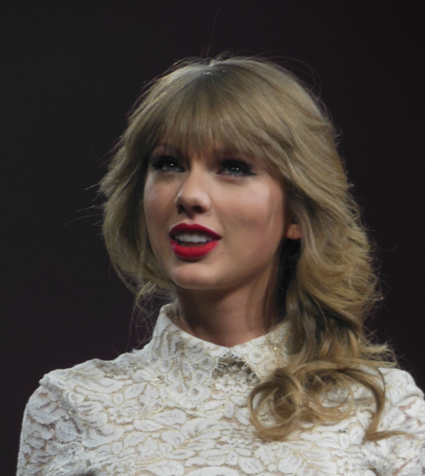 Taylor Swift during the Red Tour, March 2013, performing Red